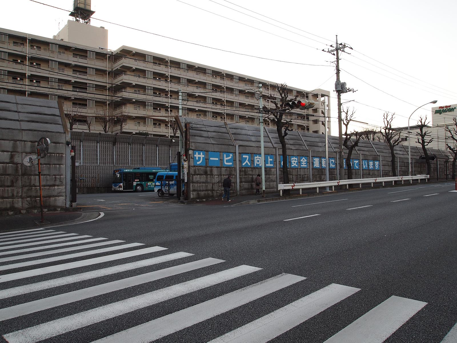 Kawasaki City Bus Washigamine Dept. Sugao Yard. Located at Inukura, Miyamae Ward.